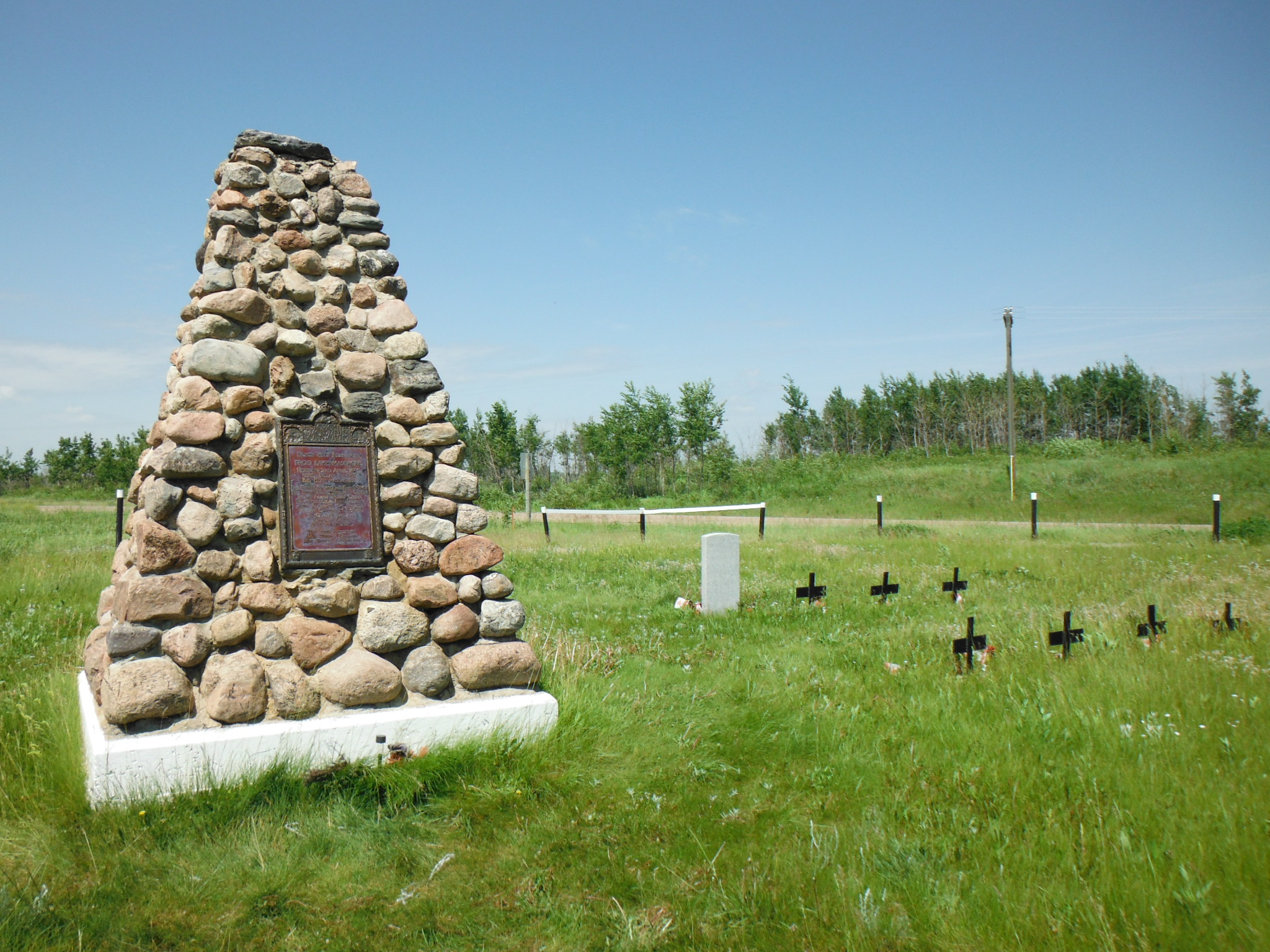 The cairn commemorating the Frog Lake Massacre located in the cemetery with the graves of some of those who were killed. Frog Lake National Historic Site of Canada is located near Frog Lake, Alberta